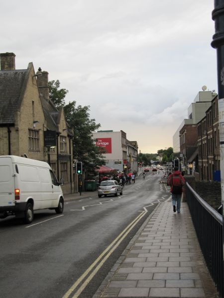 View west across Hythe Bridge and along Hythe Bridge Street, Oxford, England. The gabled stone building on the left is the Oxford Retreat pub, formerly the Nag's Head.